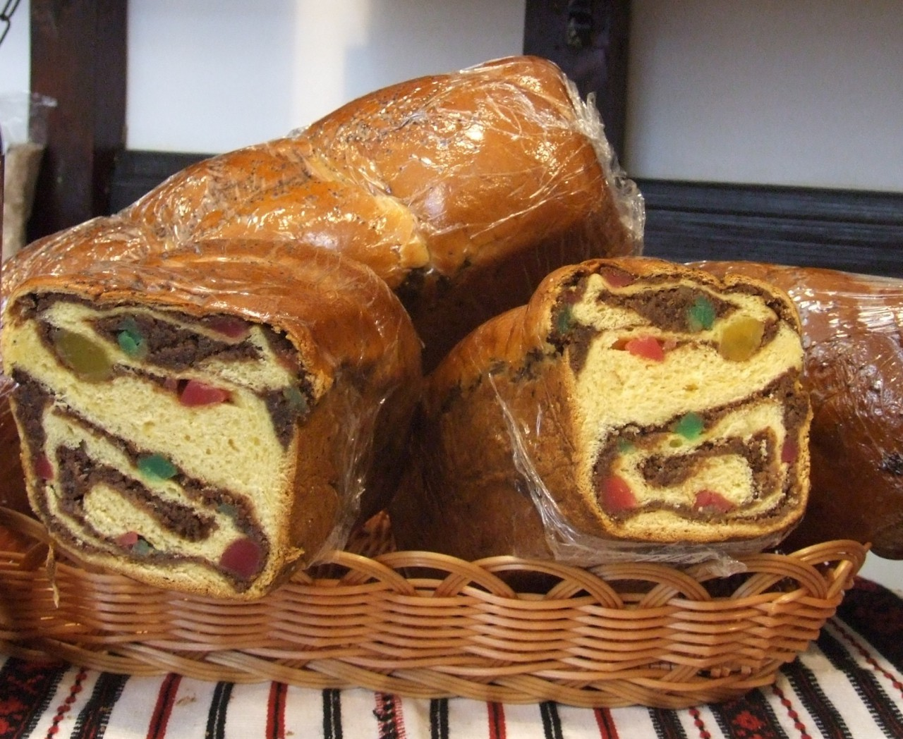 Cozonac